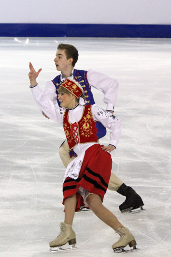 Justyna Plutowska and Dawid Pietrzynski perform a Polish original dance, wearing costumes from Kashubia (northern Poland), at the 2010 World Junior Championships.